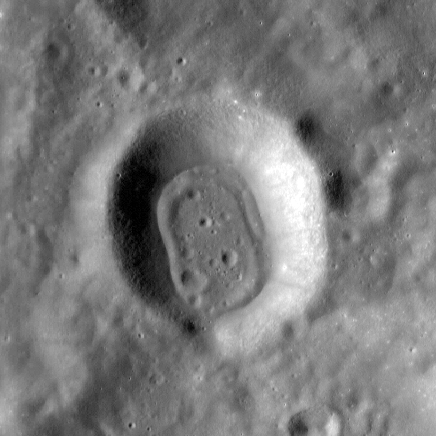 Probable concentric crater Colombo B on the Moon, between Mare Fecunditatis and Mare Nectaris. Its size is 15×13 km. It is number 55 in the catalogue of concentric craters by Trang (2014) (p. 146–149) and number 103 in the catalog by Trang et al., 2016, and it is not included in the list by Wood, 1978. Photo by Lunar Reconnaissance Orbiter, made with Wide Angle Camera on 21 January 2011 from altitude 39 km. Sun elevation is 24.9°. Width of the photo is 26 km, north is up.